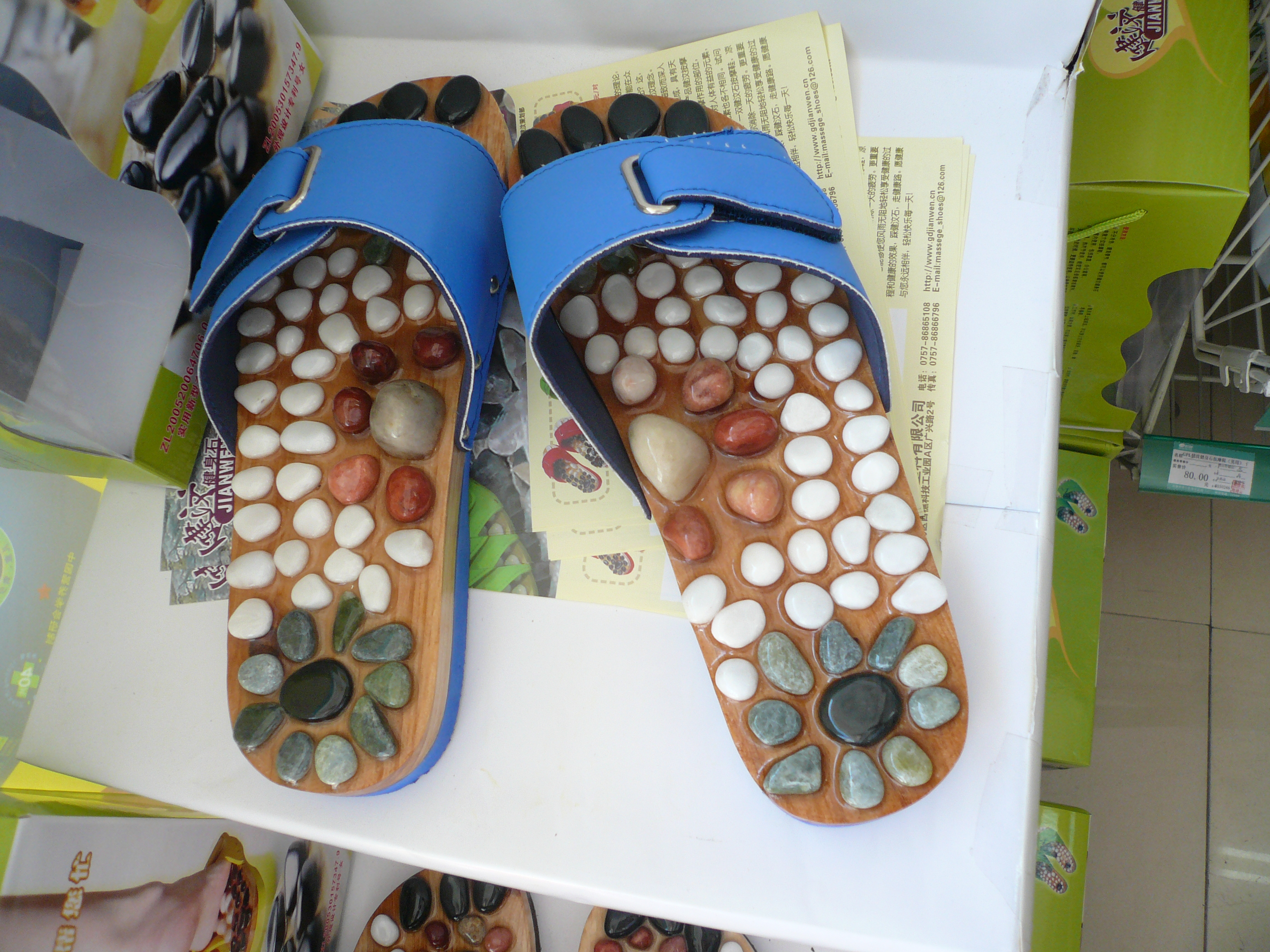 Pebble massage sandals from Dalian, China.